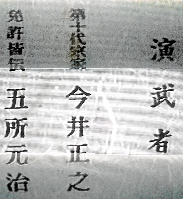 Screenshot of the video of Hyoho Niten Ichi Ryu recorded for permanent archive of Nihon Kobudo Kyokai in 1981